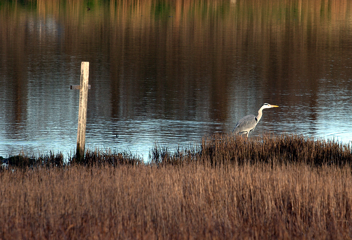 Taken by Albert White, Feb 17th 2007 at Booterstown Marsh.